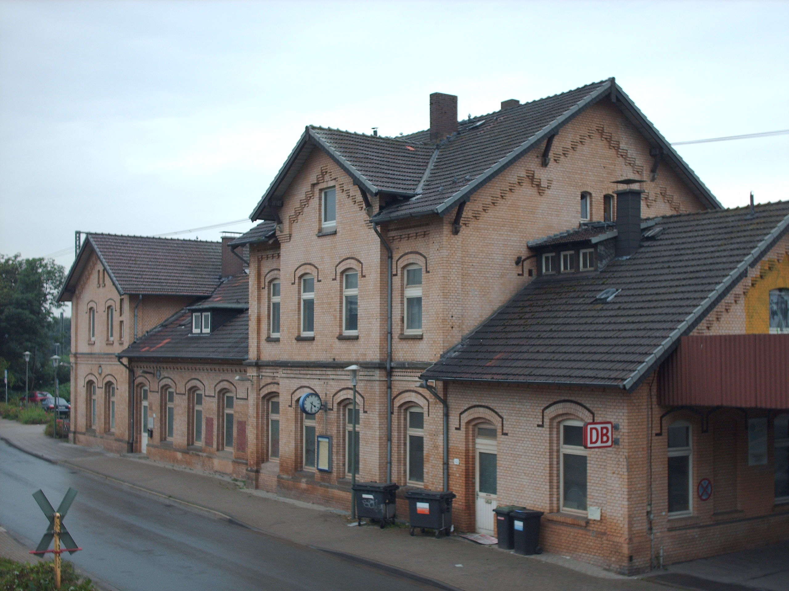 Brackwede station, Bielefeld, Germany check usage